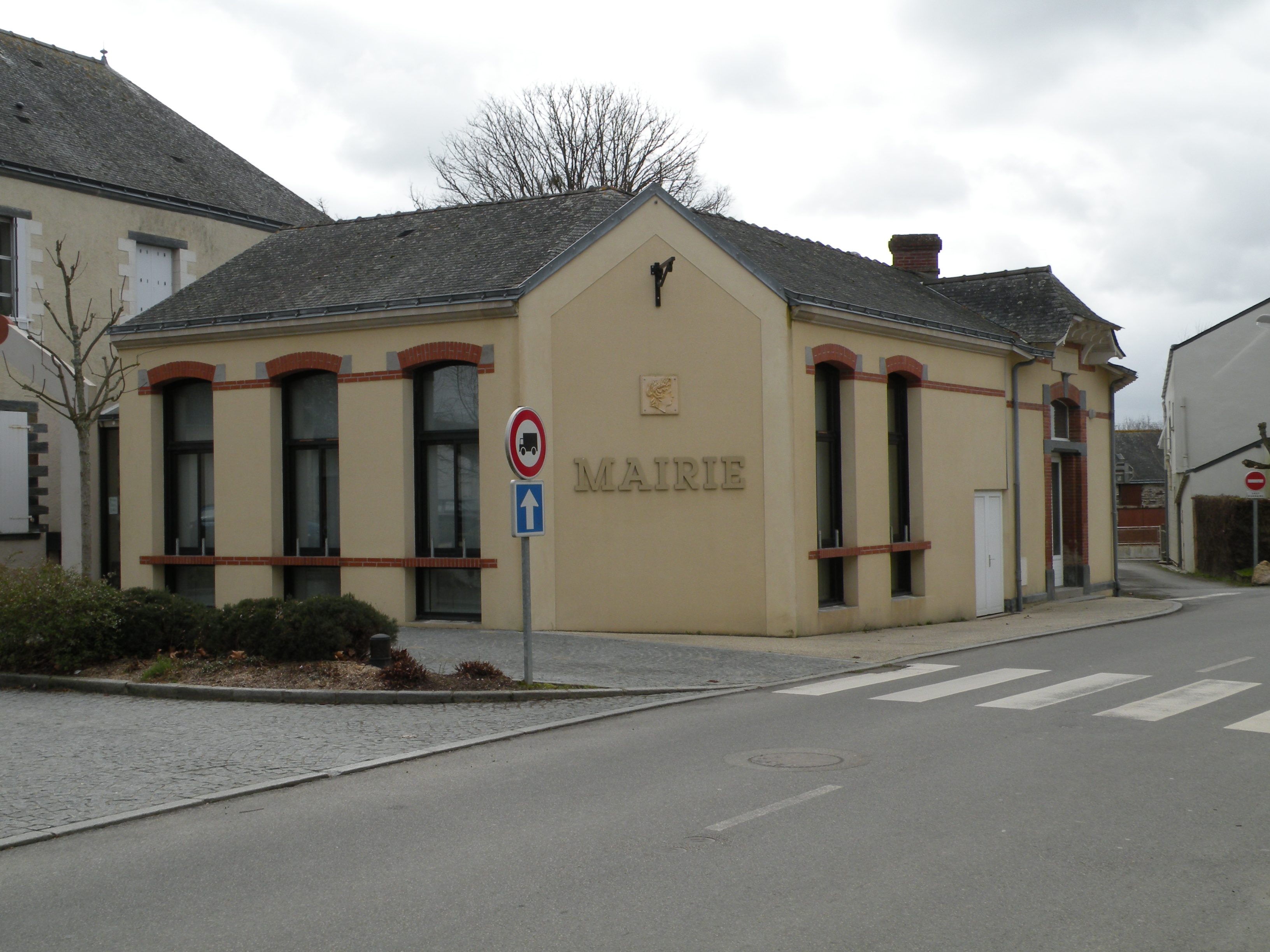 Town hall of La Chevallerais